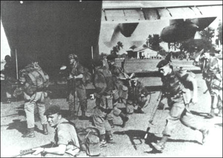 original description: "The loer plane before the takeoff to Kamina from Paulis" [1]